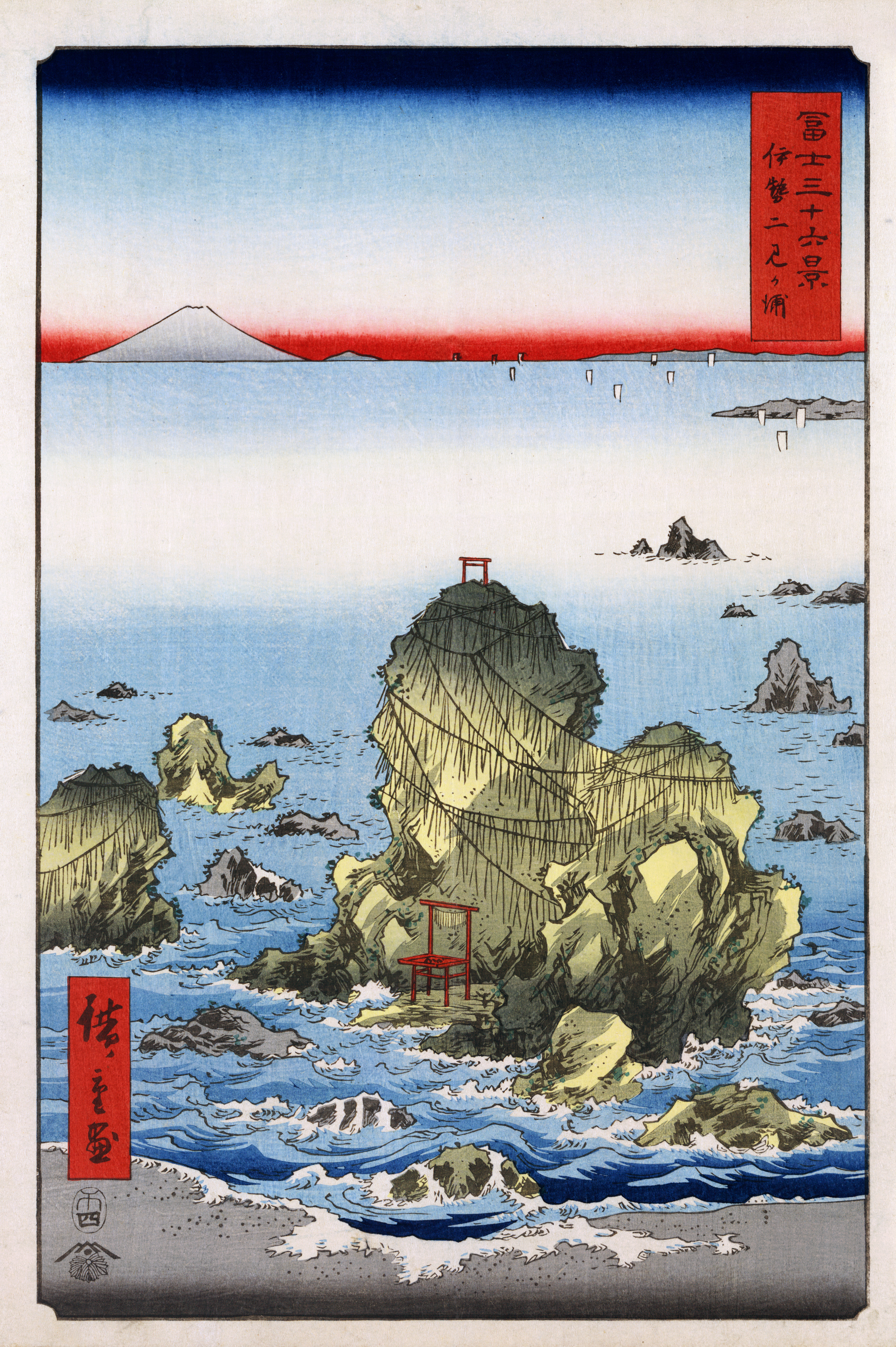 Ise futamigaura (Futami Bay in Ise Province). Ukiyo-e print shows the two large rocks (Meoto Iwa or "wedded rocks") just off the shore at Futamigaura, with a network of ropes, torii gate and shrine, with a view of Mount Fuji in the background. No. 27 in the series Fuji sanjūrokkei (Thirty-six views of Mount Fuji), 1858.